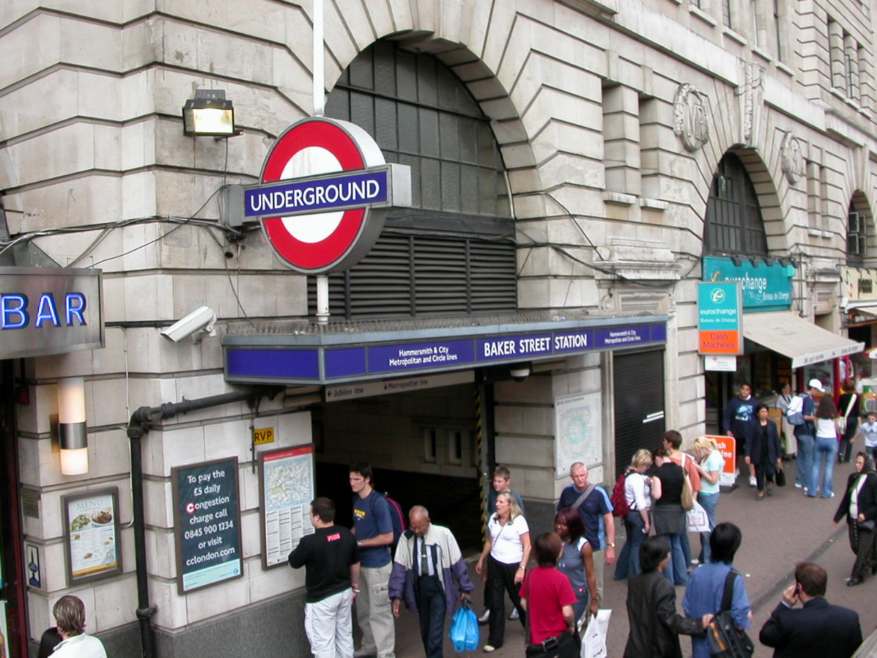 2004. Entrance to Baker Street Underground Station. Taken from top deck of open-top bus.